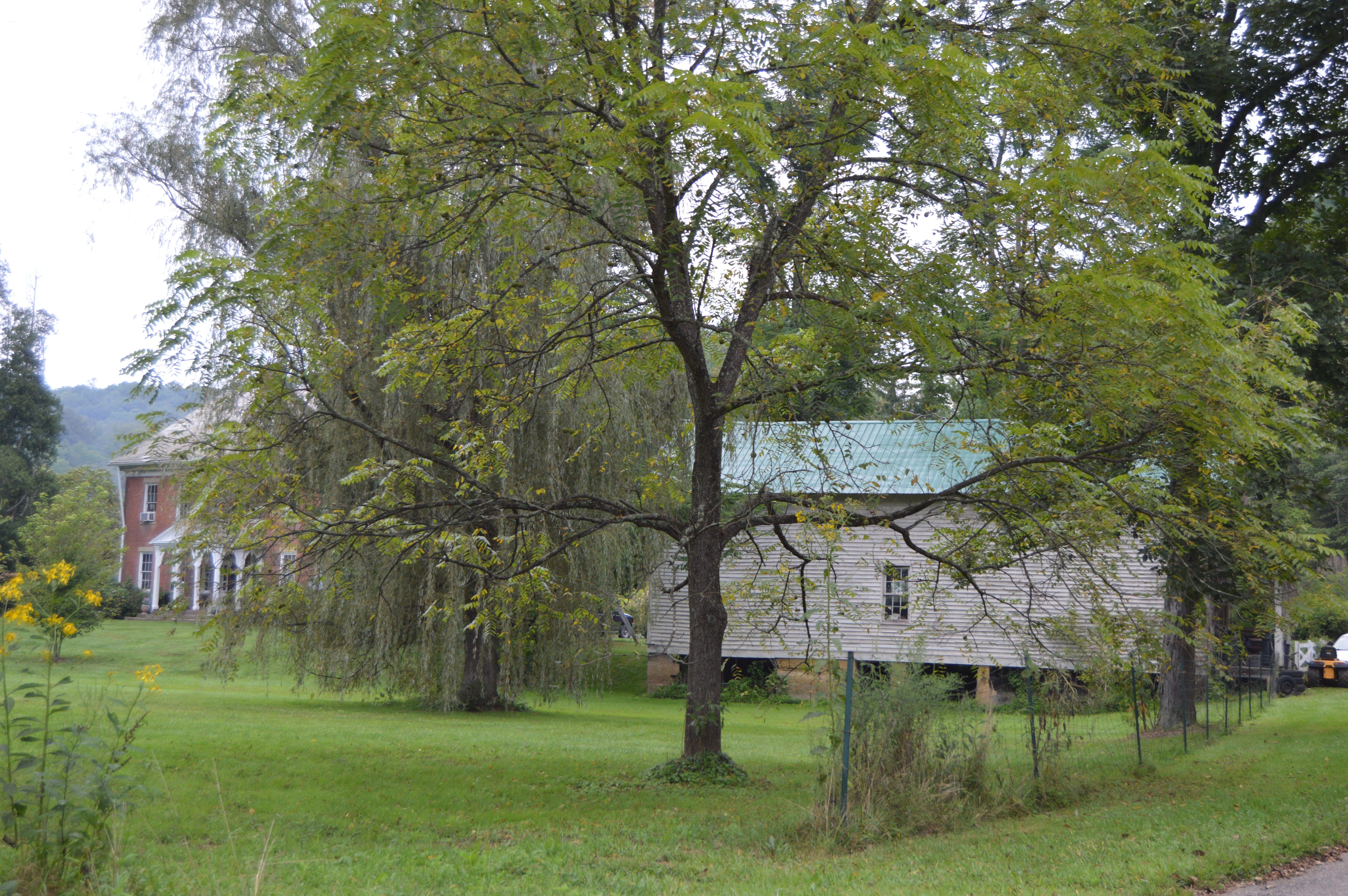 Overview from the south of the Waernicke-Hille House and Store, located on Upper Archer's Fork Road at Archer's Fork, Ohio, United States. Together, the two buildings are listed on the National Register of Historic Places.